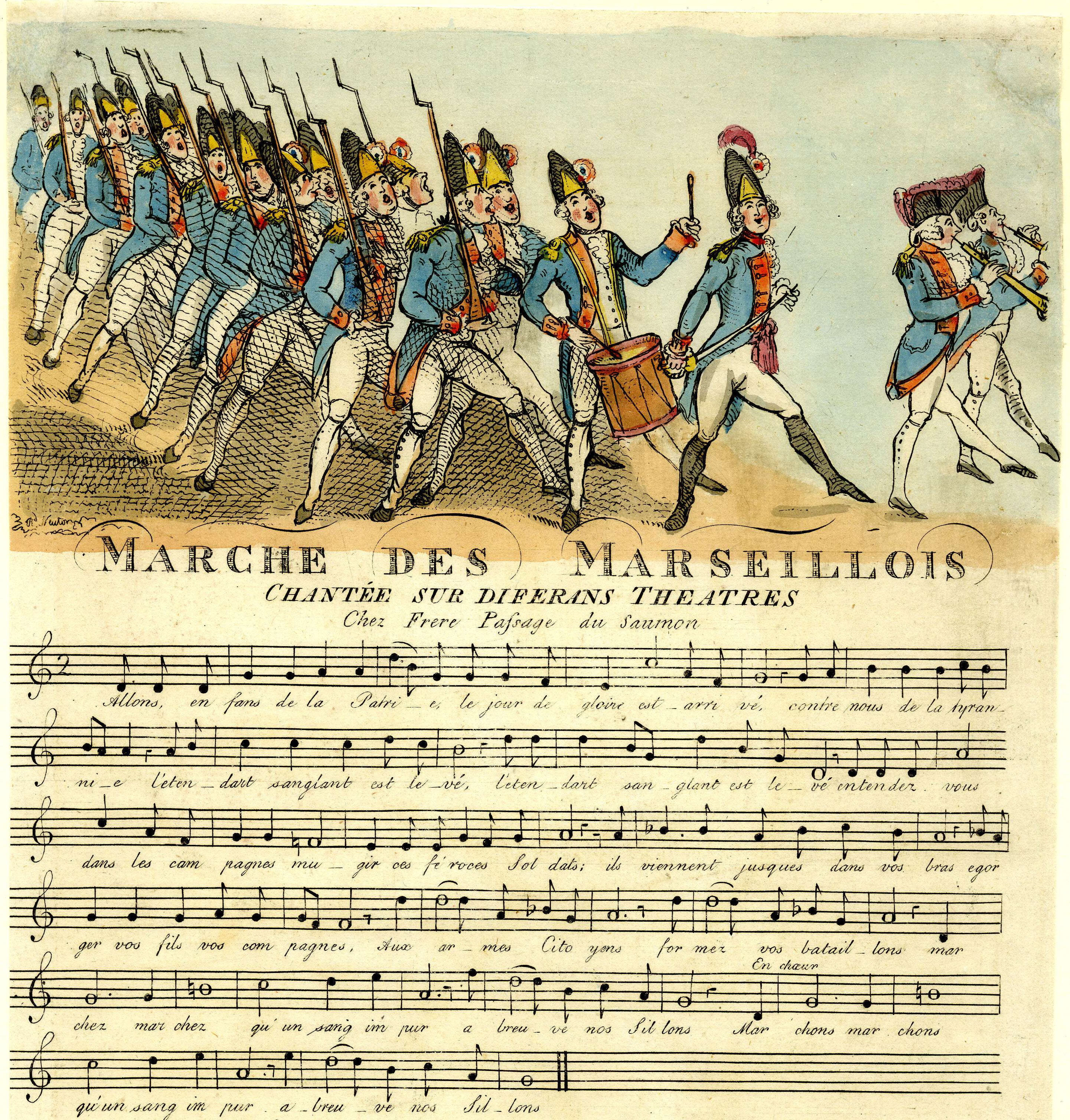 Londres, W. Holland, 1792